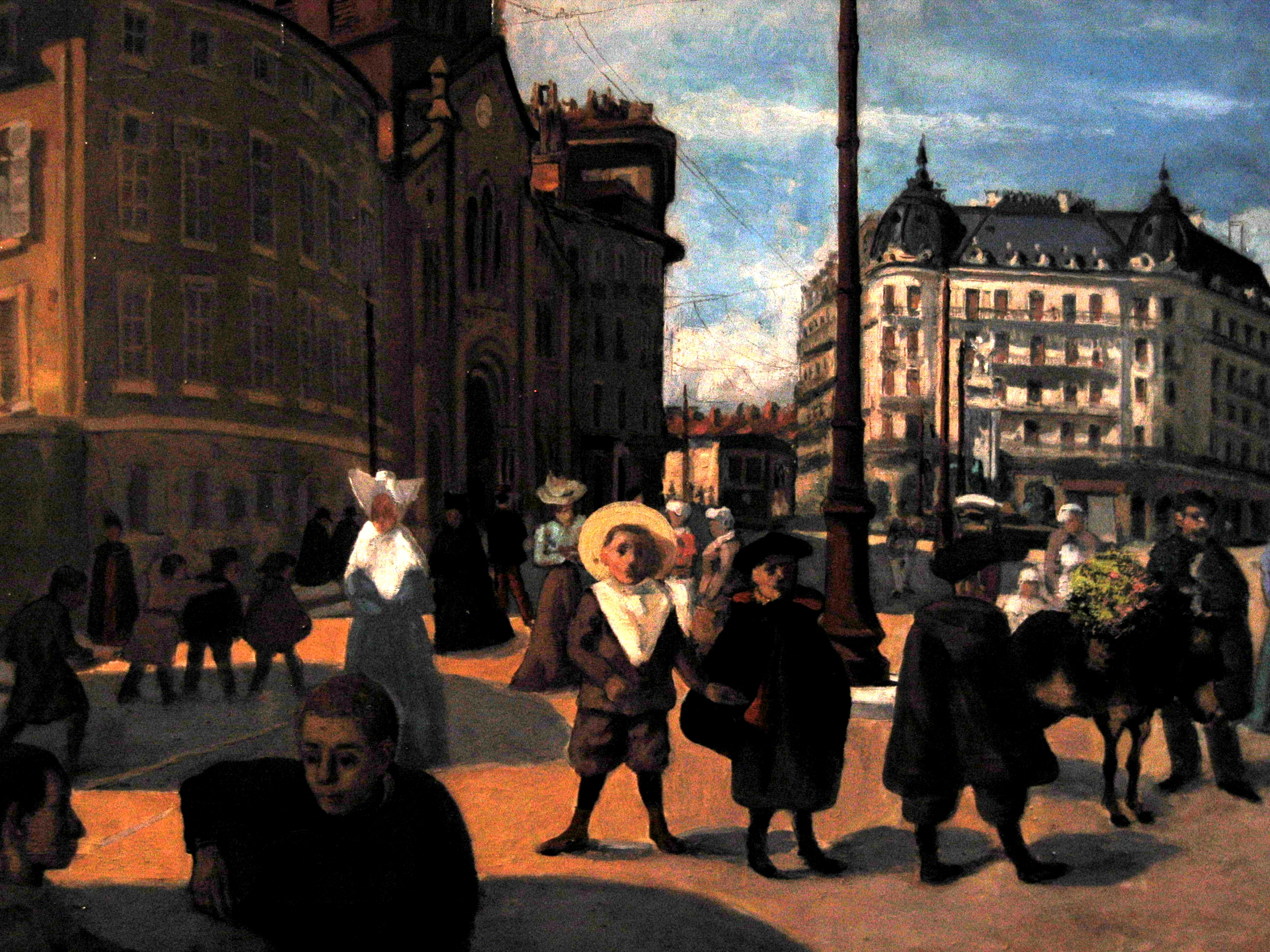 Place Notre Dame by François Joseph Girot